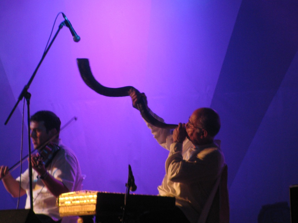 Shlomo Bar, Entertainment